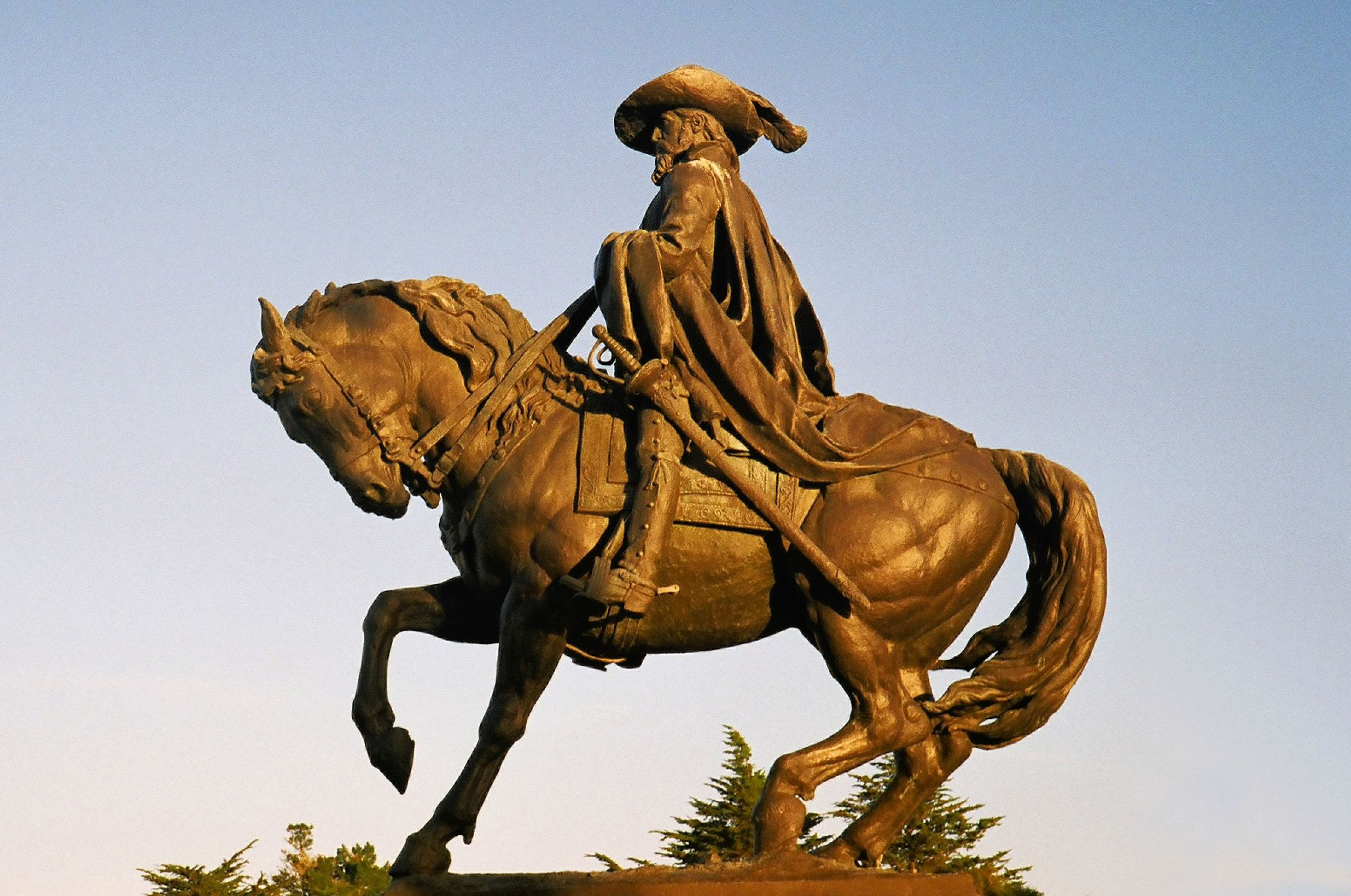 Kiev IV Jupiter-8M 50mm/f2 Walgreens 200 12/28/2012 Captain Juan Bautista de Anza, founder of the City San Francisco